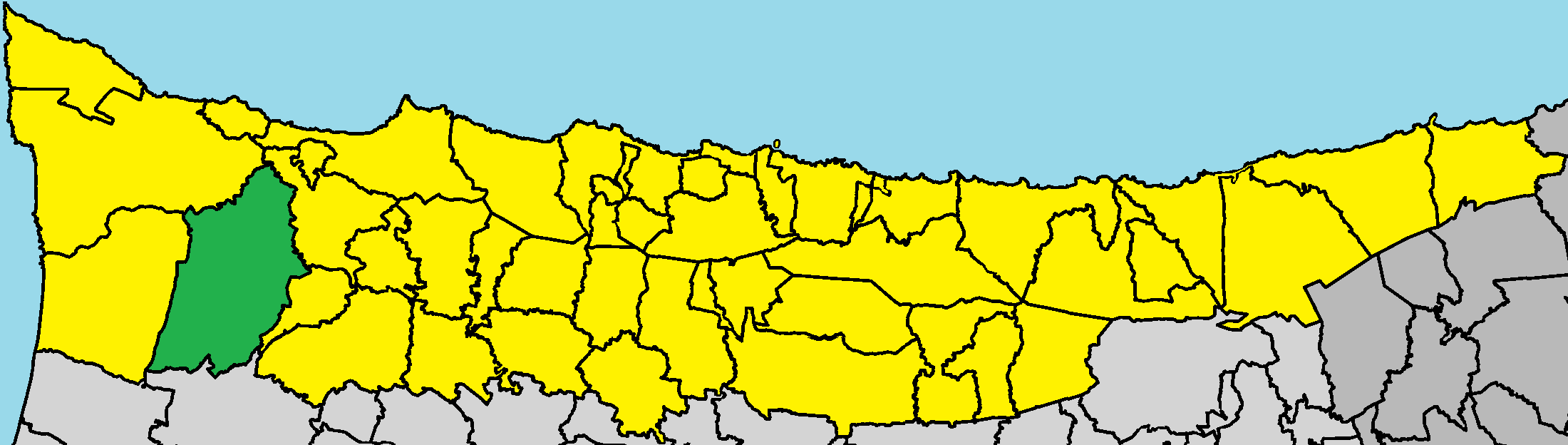 Diorios in Kyrenia District (de jure).